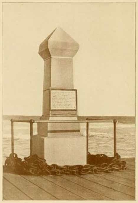 12 foot tall, Monument to 'New Era' disaster erected in Asbury Park, in 1893, lost to the sea in 1894, image taken from The Wreck of the Ship "New Era" upon the New Jersey Coast, November 13, 1854, by Julius Friedrich Sachse